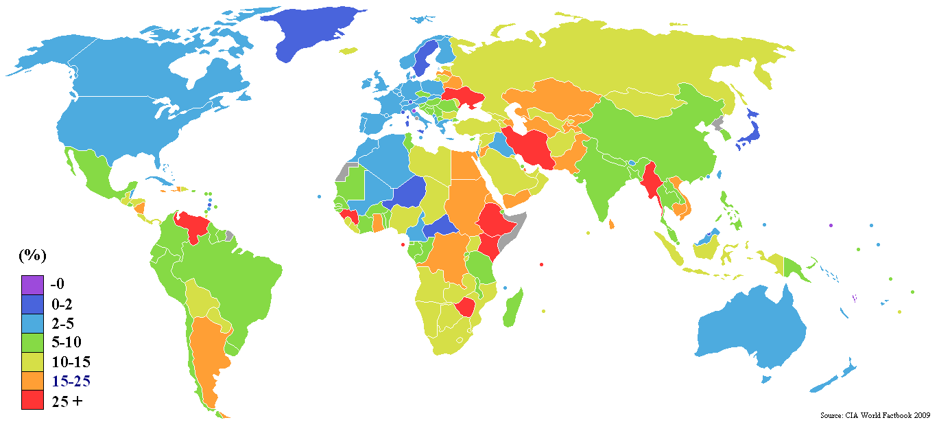 World map showing inflation, updated for 2007. Grey means no data.